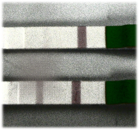 urine-based ovulation test detecting LH